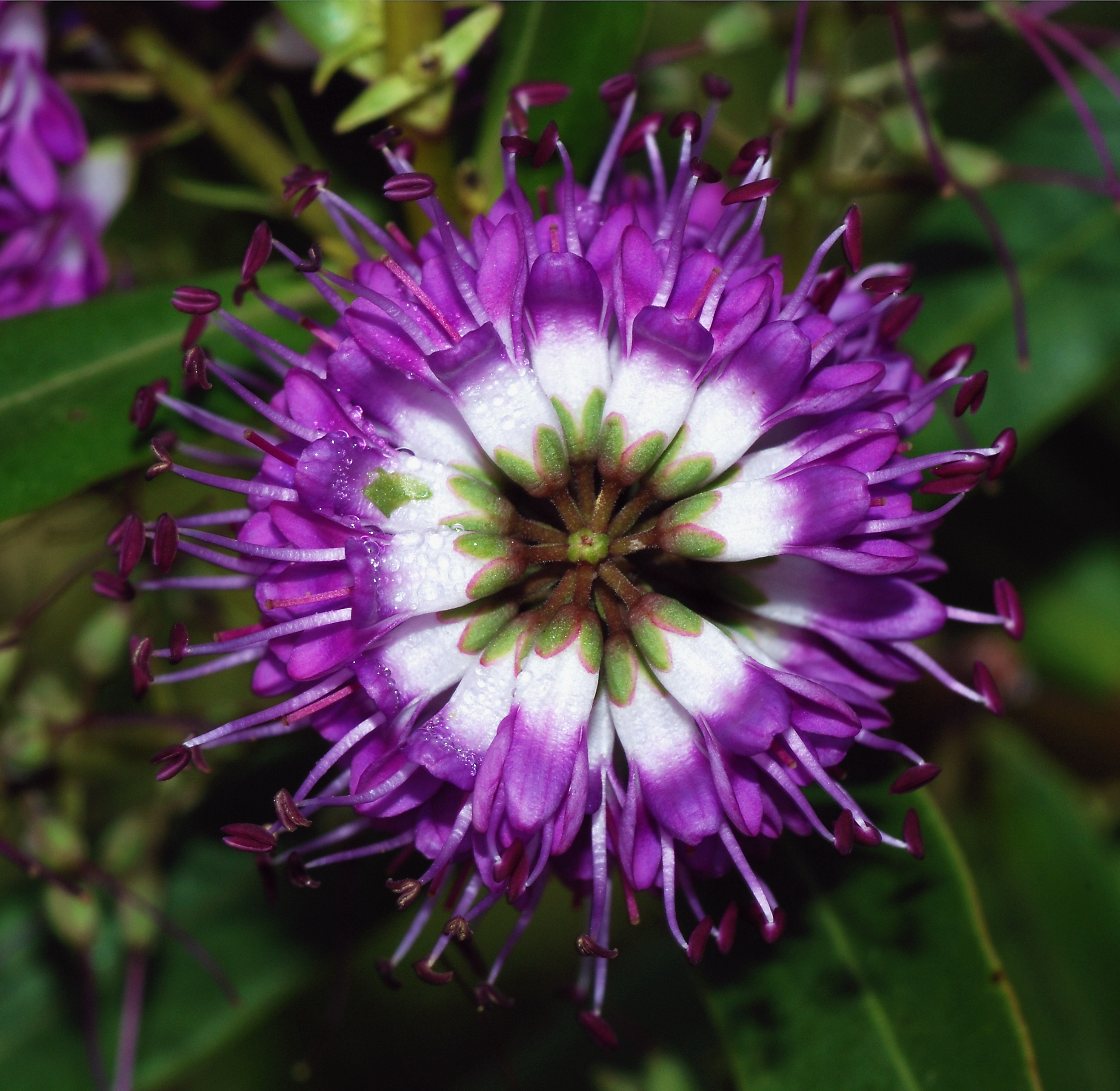 A Blue Gem flower (Hebe x franciscana)